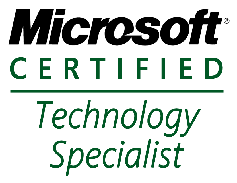 Microsoft Certified Technology Specialist